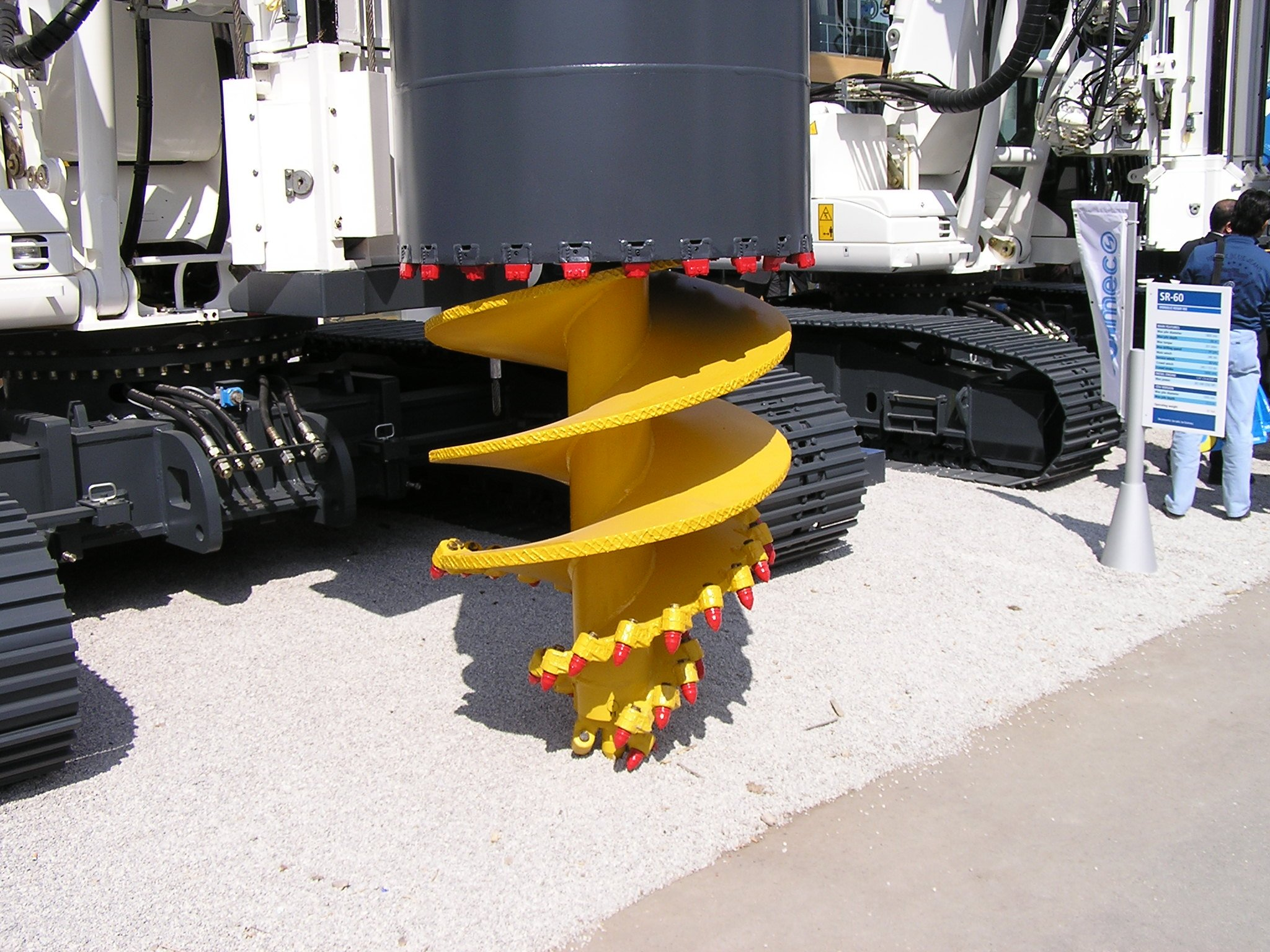 Drilling tool of a drilling machine for foundation piles. Photographed at the BAUMA exhibition in Munich (Germany) 2007.